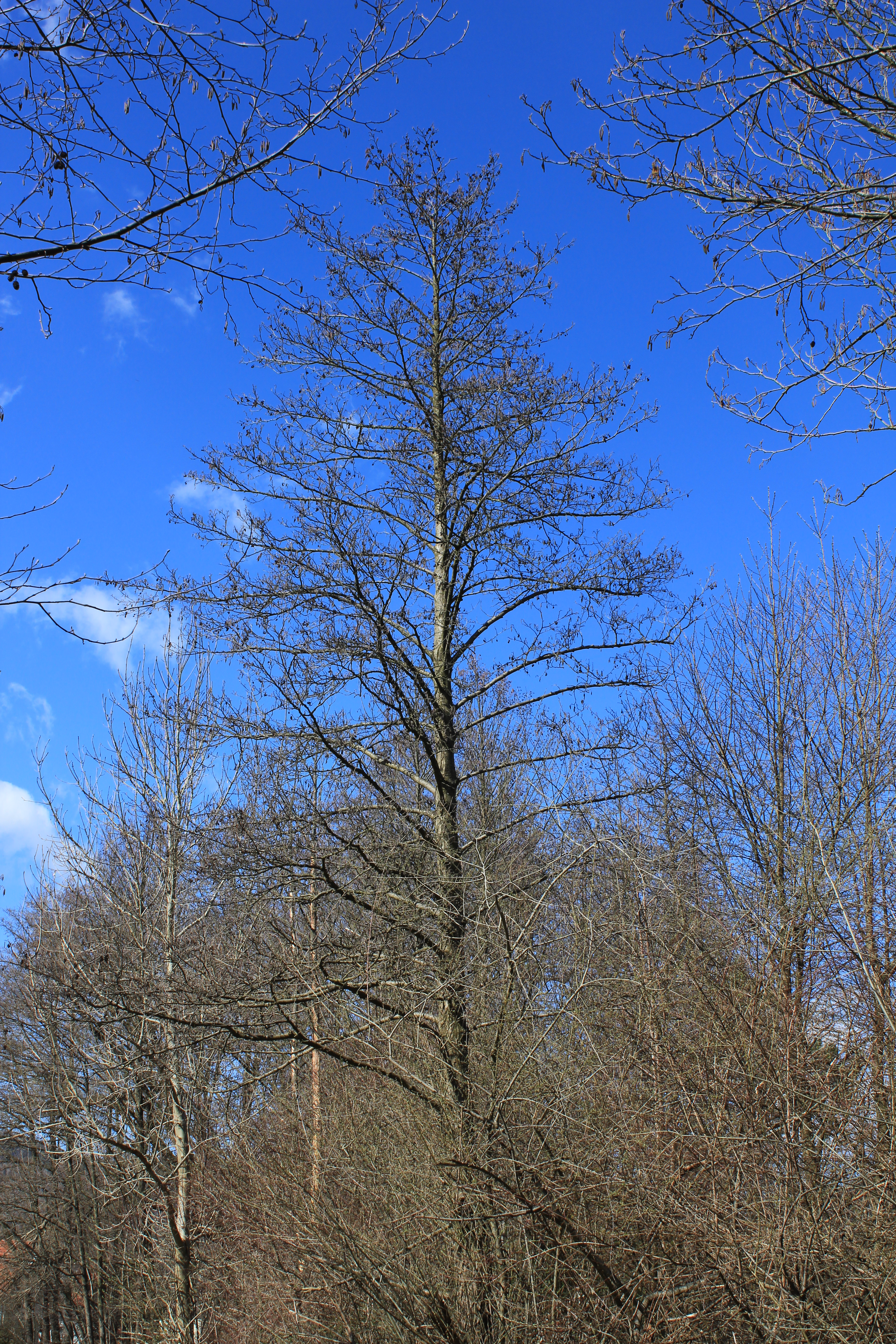 Alnus glutinosa (Styria, Austria in March)